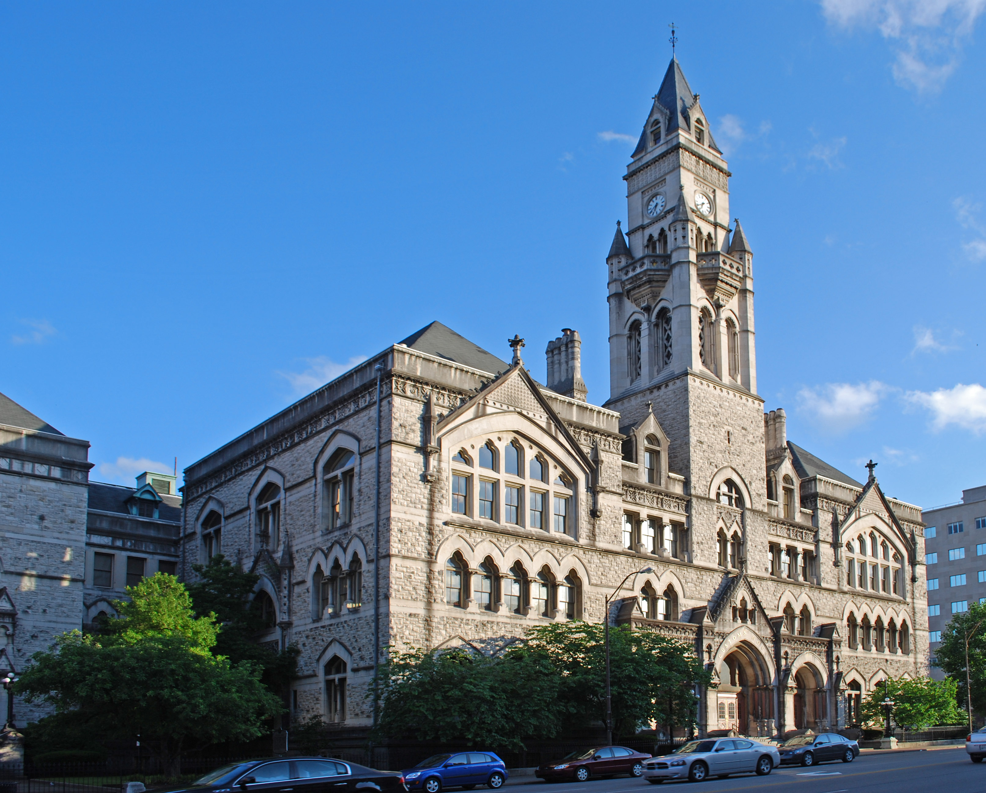 Gilbert Mansion, Nashville TN